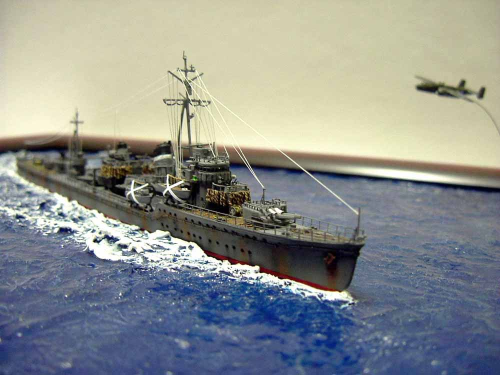 Tamiya's 1.700 Scale model of the WW2 Japanese destroyer IJN Harusame. Winner of small scale ship category in Australian Model Expo 2007